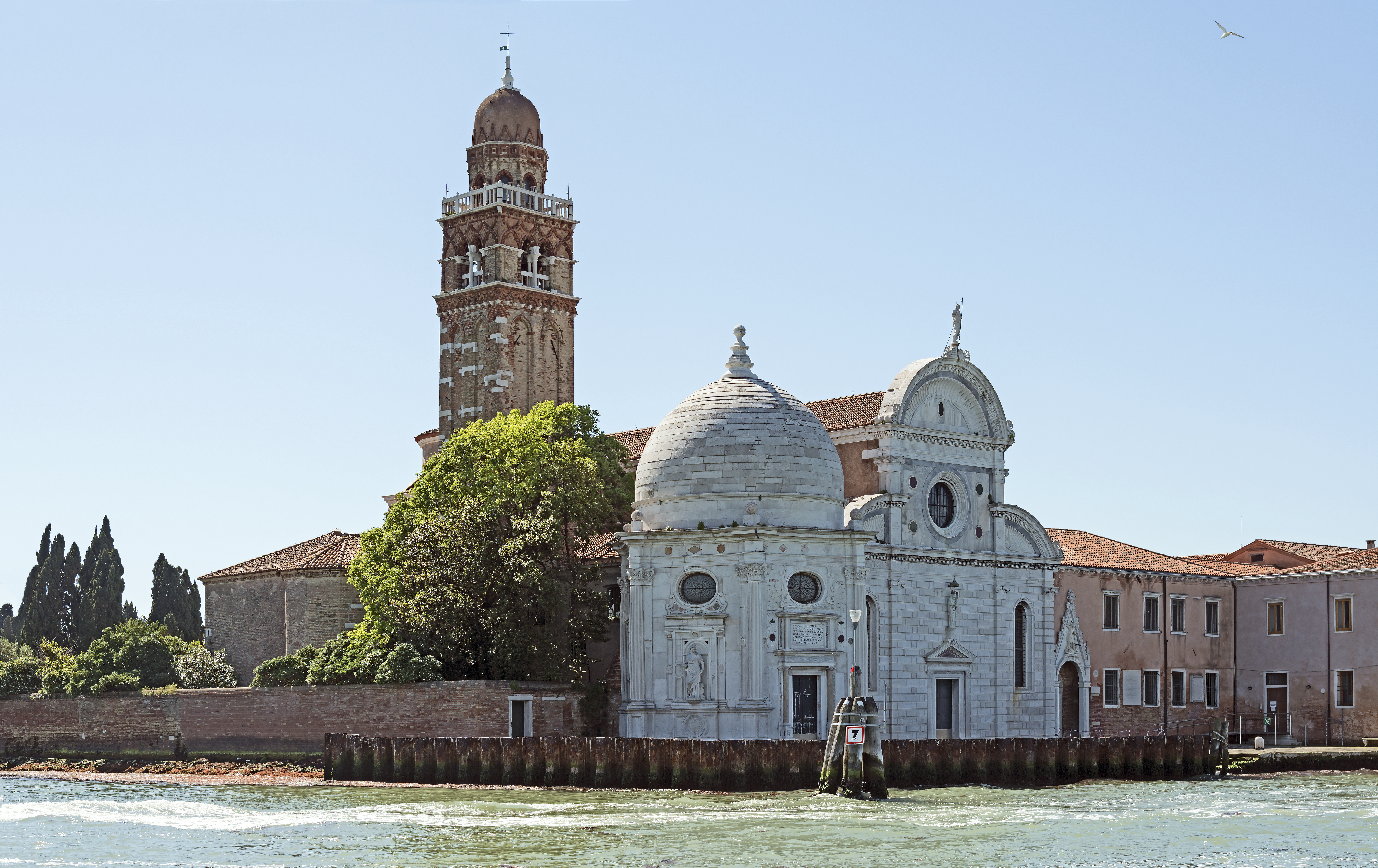 San Michele in Isola in Venice. First building renaissance of the lagoon it is due to the architect Mauro Codussi. On the right side of the facade the Cappella Emiliana' 'hexagonal surmounted by a cupola, was built by Guglielmo dei Grigi says Guglielmo Bergamasco between 1528 and 1543.